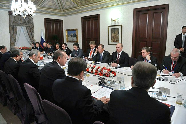 At the meeting of High-Level Russian-Turkish Cooperation Council with Prime Minister of Turkey Recep Tayyip Erdogan and President of Russia Vladimir Putin in Ankara